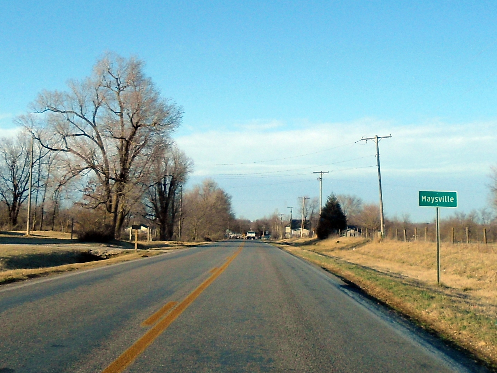 Maysville, Arkansas southern limits on Arkansas Highway 43